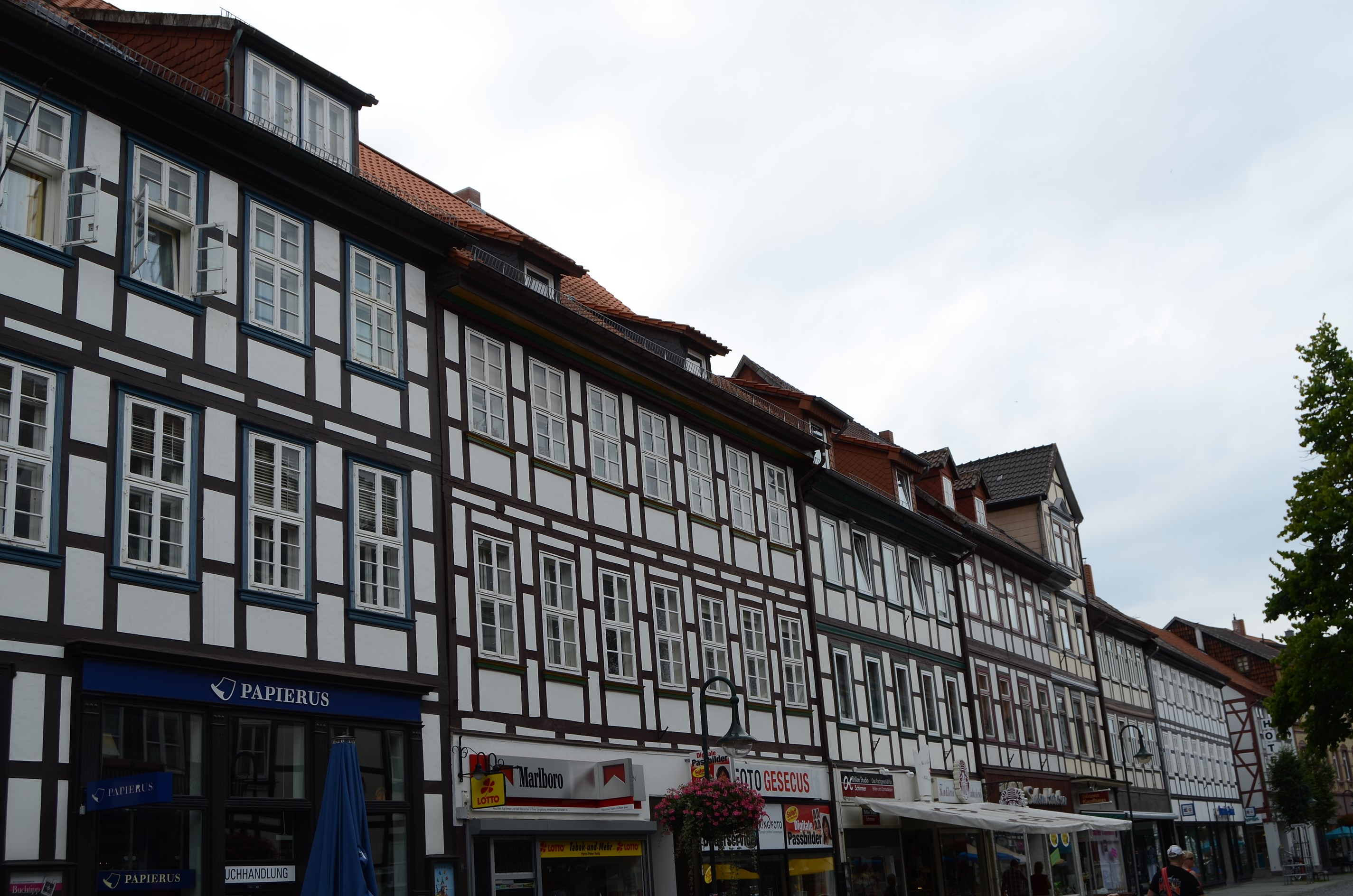 This is a photograph of an architectural monument.It is on the list of cultural monuments of Northeim This photograph was taken with a Nikon D7000 Northeim, Breite Straße 1-7